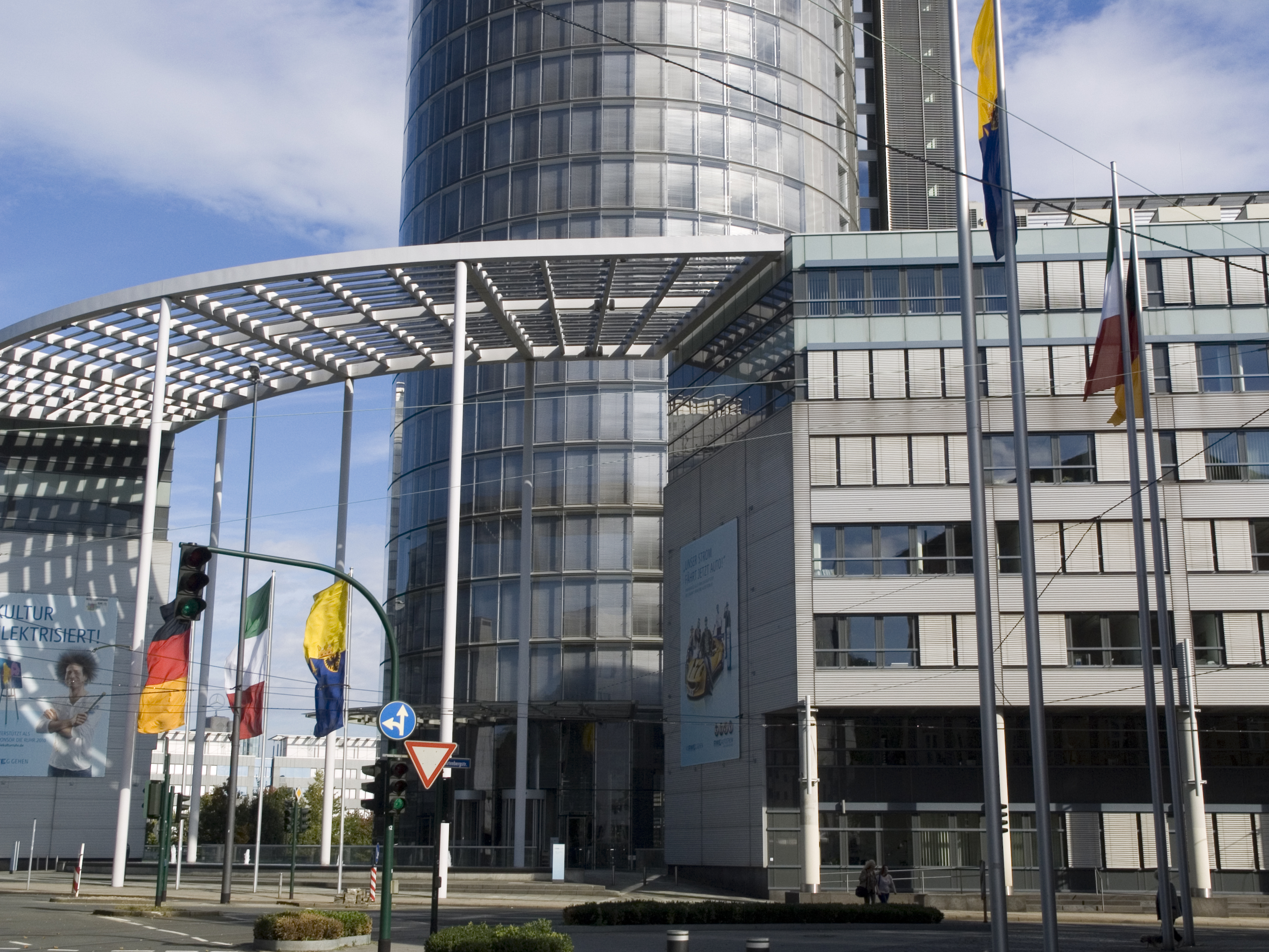 RWE headquarters in Essen, Germany